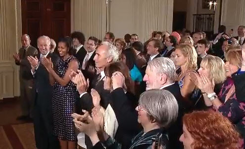 Photo from White House Video of 2010 White House reception for Jewish American Heritage Month: shot of President Obama welcoming invited guests.